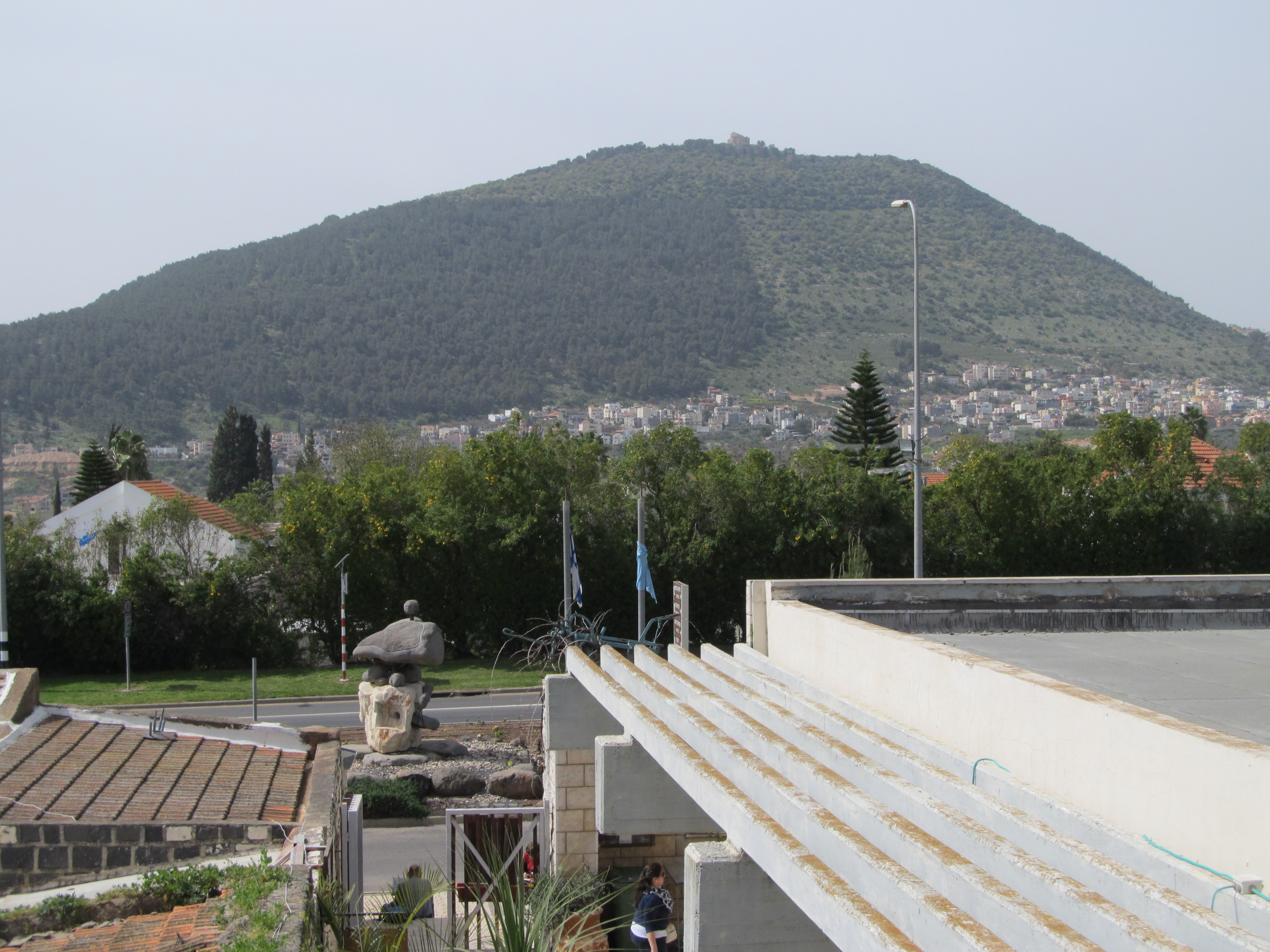 KFAR TAVOR, Geography of Israel